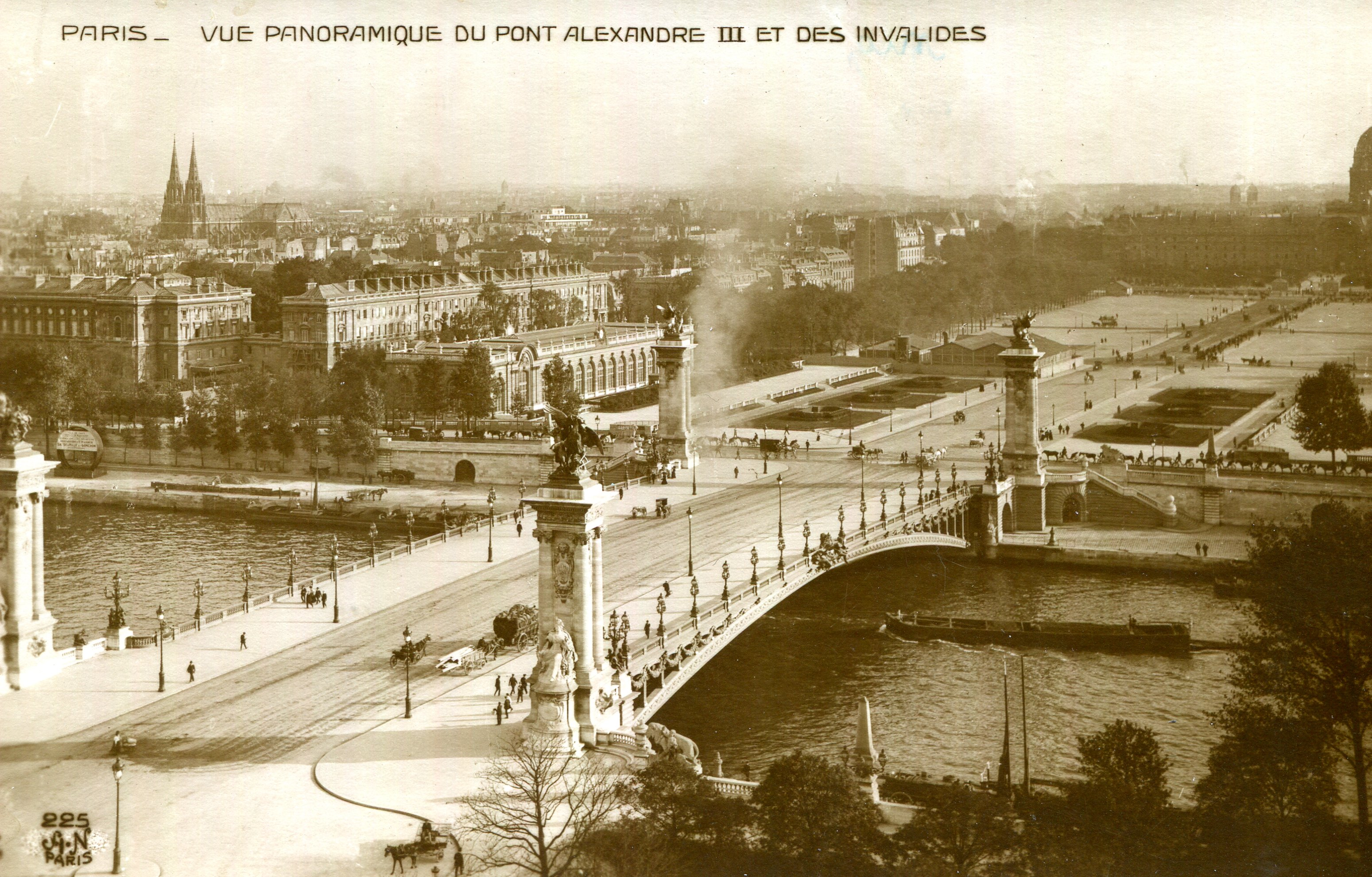 Panoramic view of the Alexandre III Bridge and the Esplanade des Invalides